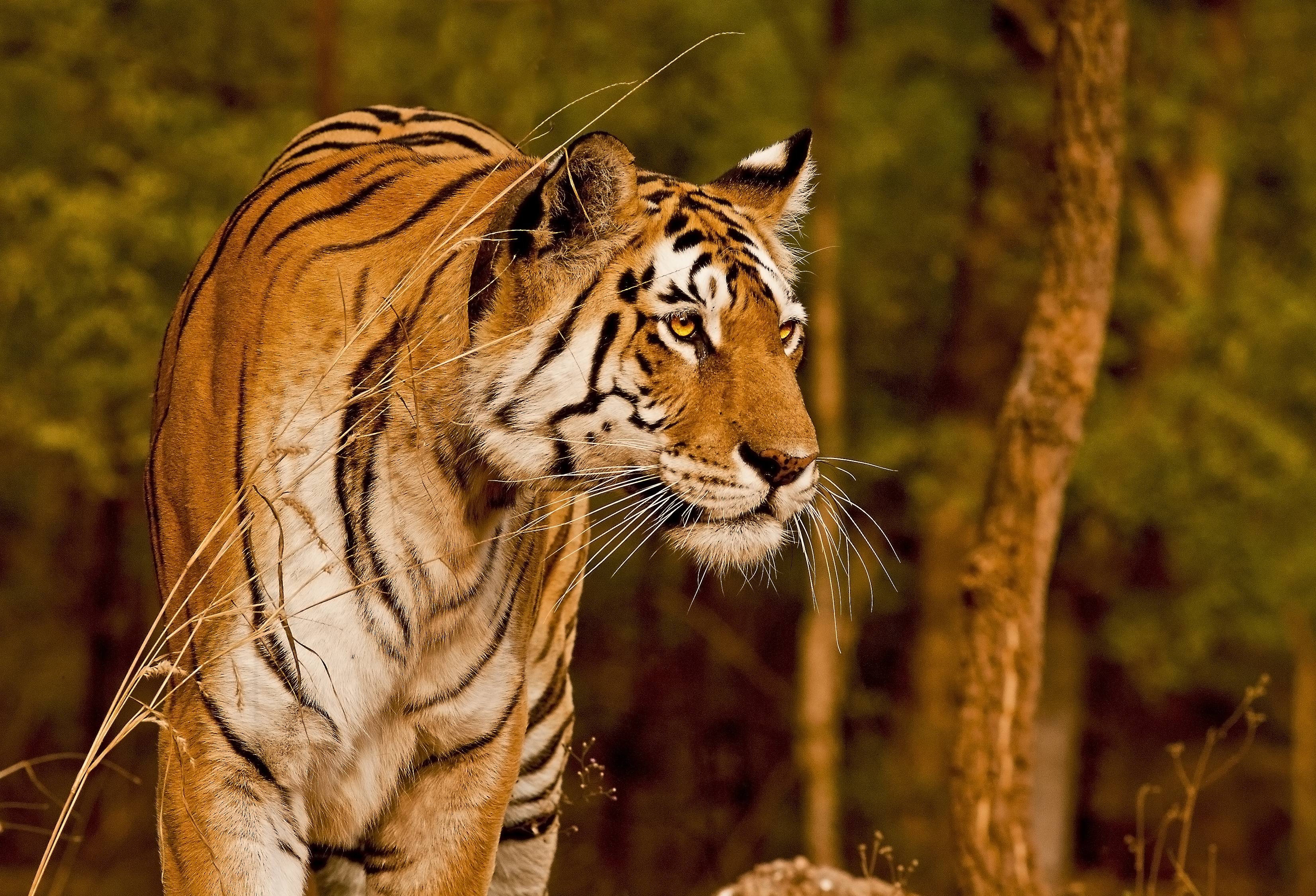 This is the image of the tigress from Pench national park, fondly reffered to as Collarwali, because of her Radio collar. She holds the record of giving birth to highest number of cubs in wild in Madhya Pradesh. 22 cubs since 2008